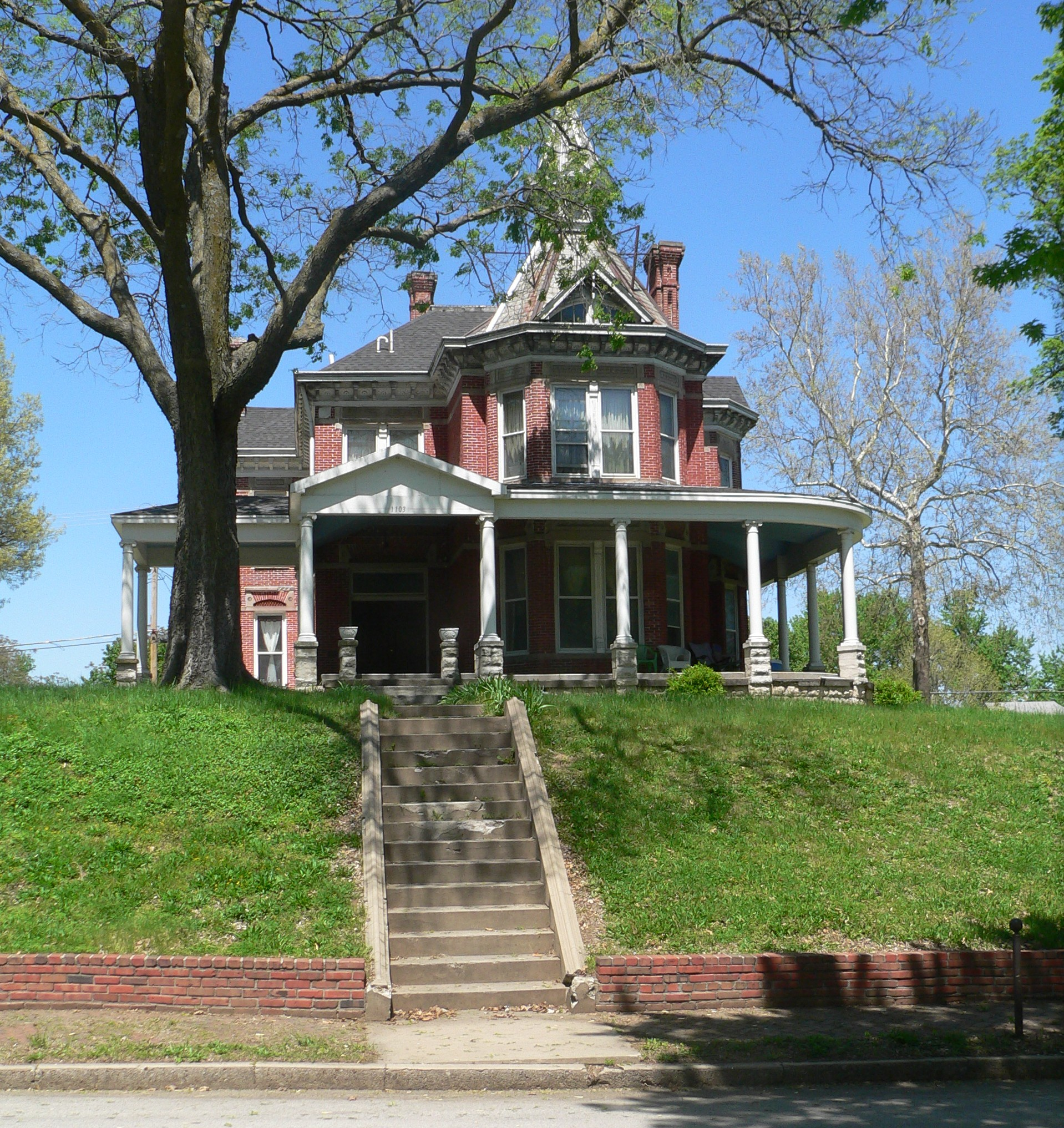 A. J. Harwi house, at 1103 Atchison Street in Atchison, Kansas; seen from the south.